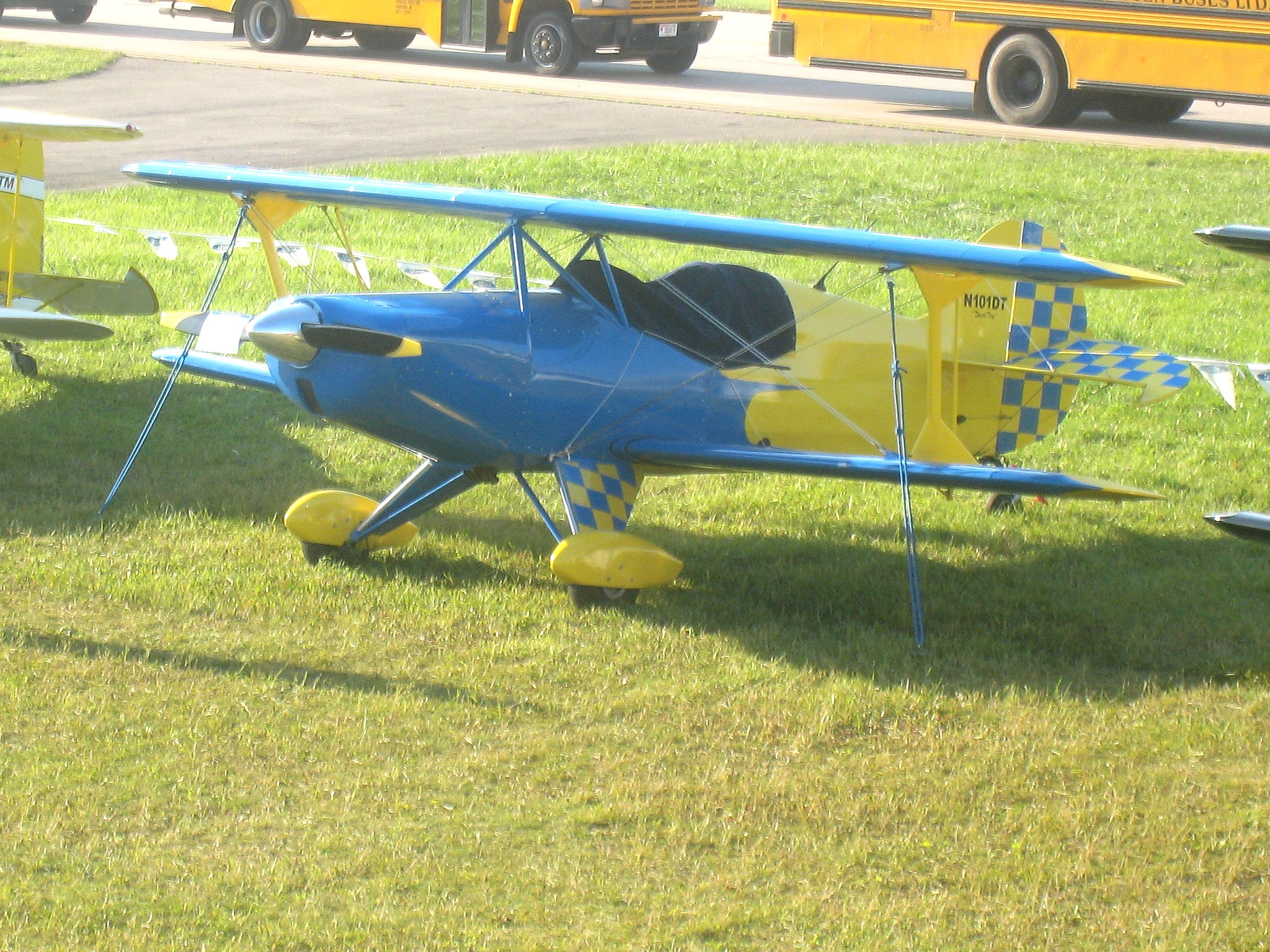 Steen Skybolt I